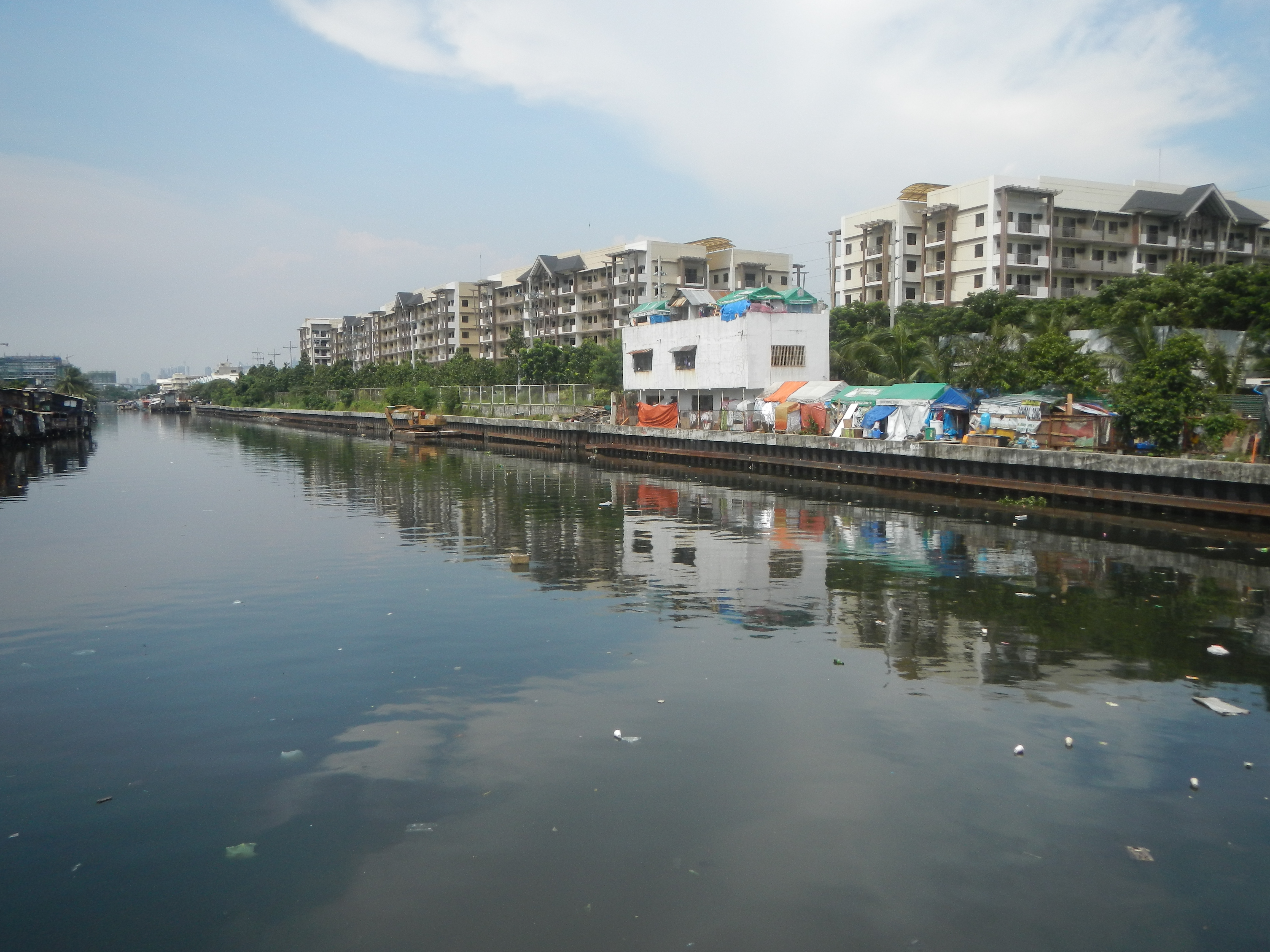 Santo Niño, Parañaque City Santo Niño Chapel & Parish Church (Col. E. de Leon Street, Santo Niño, Parañaque City) Roman Catholic Diocese of Parañaque Santo Niño Elementary and Senior High Schools (Col. E. de Leon Street, Santo Niño, Parañaque City) Don Galo-Santo Niño Bridge - Improvement of Parañaque River Merville, Parañaque City in Legislative districts of Parañaque 1st District, Districts and barangays Santo Niño 14°30'12"N 121°0'11"E Don Galo 14°30'26"N 120°59'4"E Parañaque City (Note: Judge Florentino Floro, the owner, to repeat, Donor Florentino Floro of all these photos hereby donate gratuitously, freely and unconditionally Judge Floro all these photos to and for Wikimedia Commons, exclusively, for public use of the public domain, and again without any condition whatsoever).